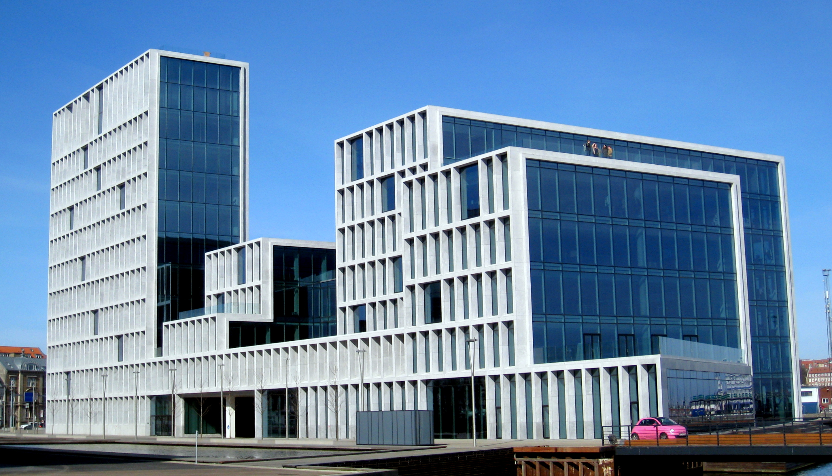 Bestseller domicile Aarhus